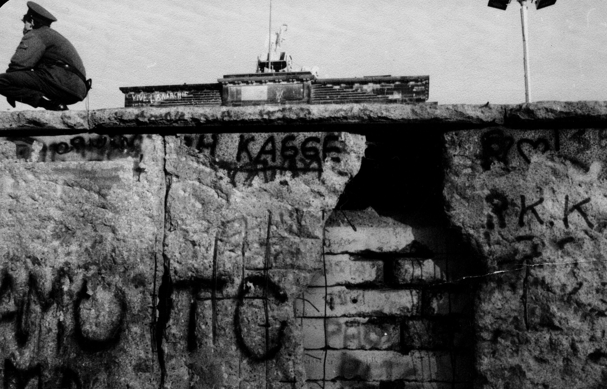 Partly destructed Berlin Wall with border police, view from west, Brandenburg Gate in the background